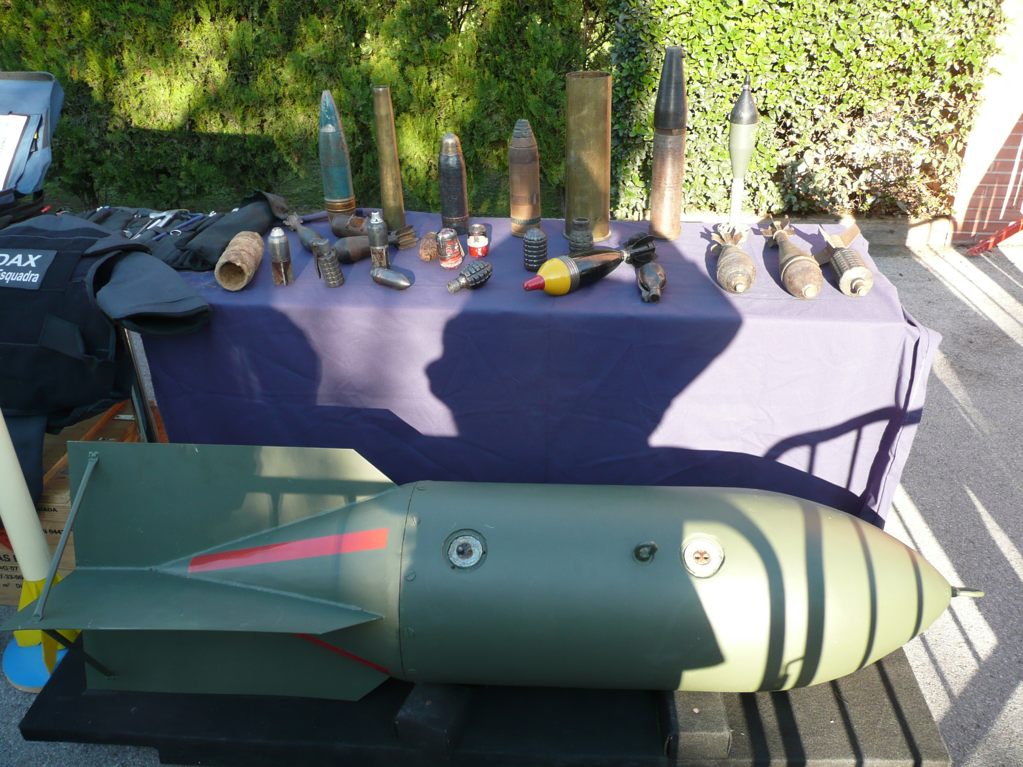 Some bombs of the Spanish Civil War disabled by the Catalan police department bomb disposal.